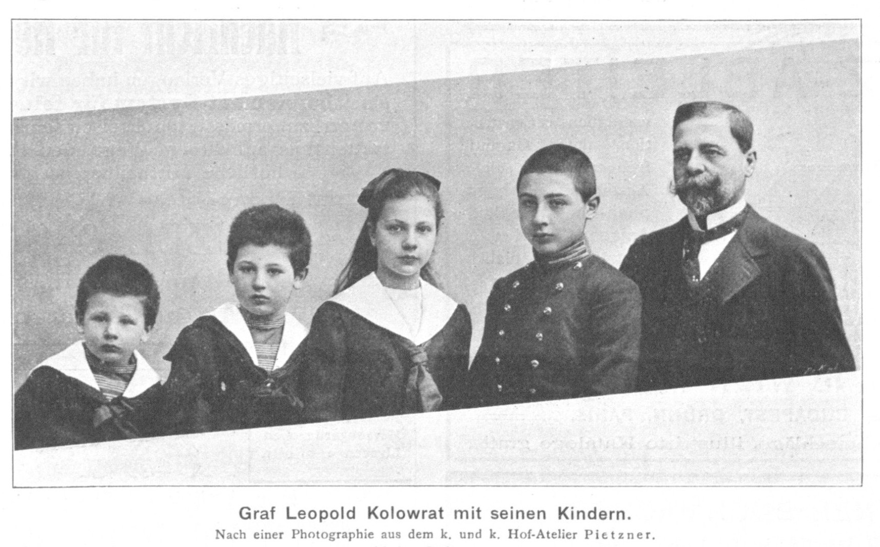 Portrait of Leopold Filip Kolowrat-Krakowsky (1852-1910), Austrian and Czech nobleman, with his four children.